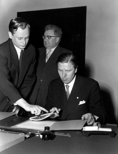 Photograph of the Finnish minister Johannes Virolainen signing a loan treaty with the Soviet Union. To his left, Yrjö Väänänen (1929–1999) from the Finnish ministry of foreign affairs, using the blotter; behind them the Soviet ambassador Viktor Z. Lebedev (1900–1968).